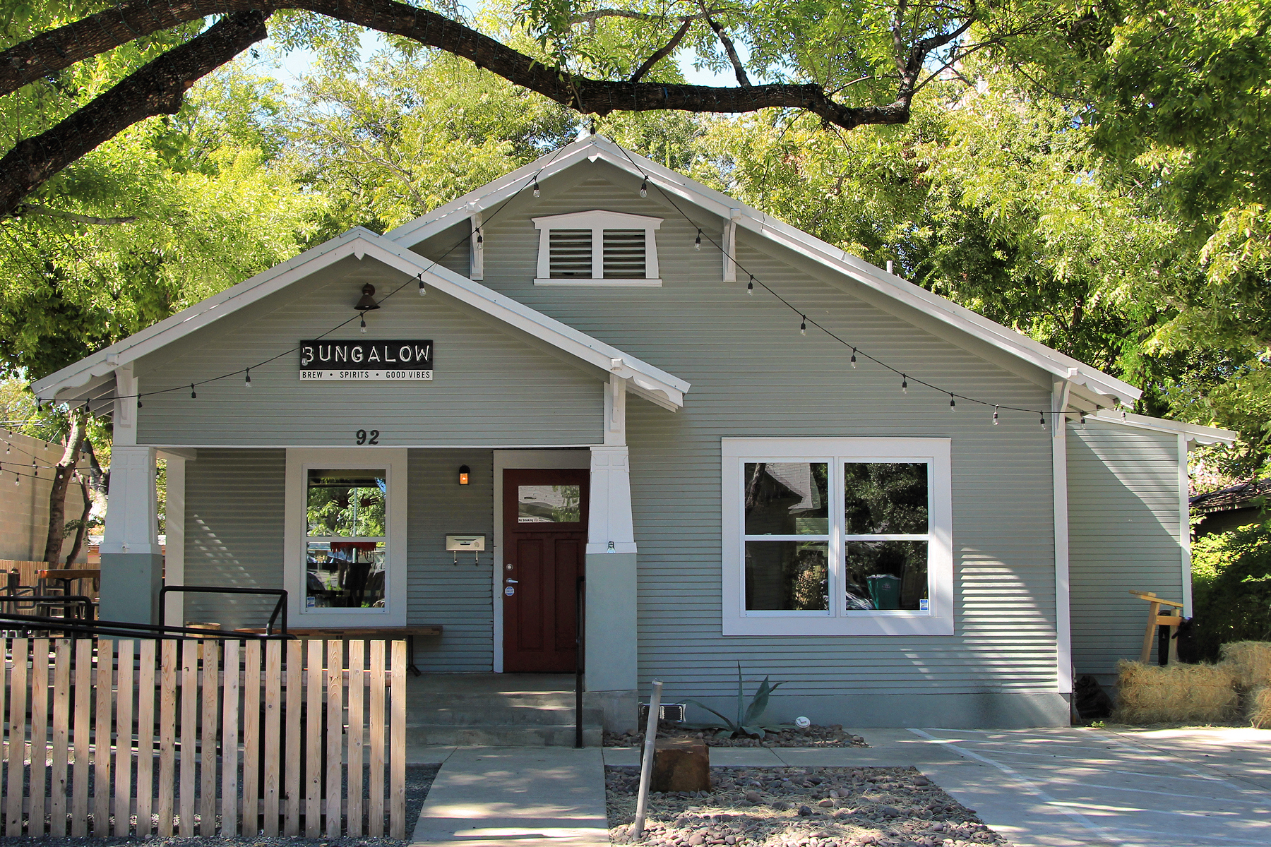 The appropriately named Bungalow Bar on Rainey Street. One of the many houses turned business in the Rainey Street Historic District (Austin, Texas), United States.